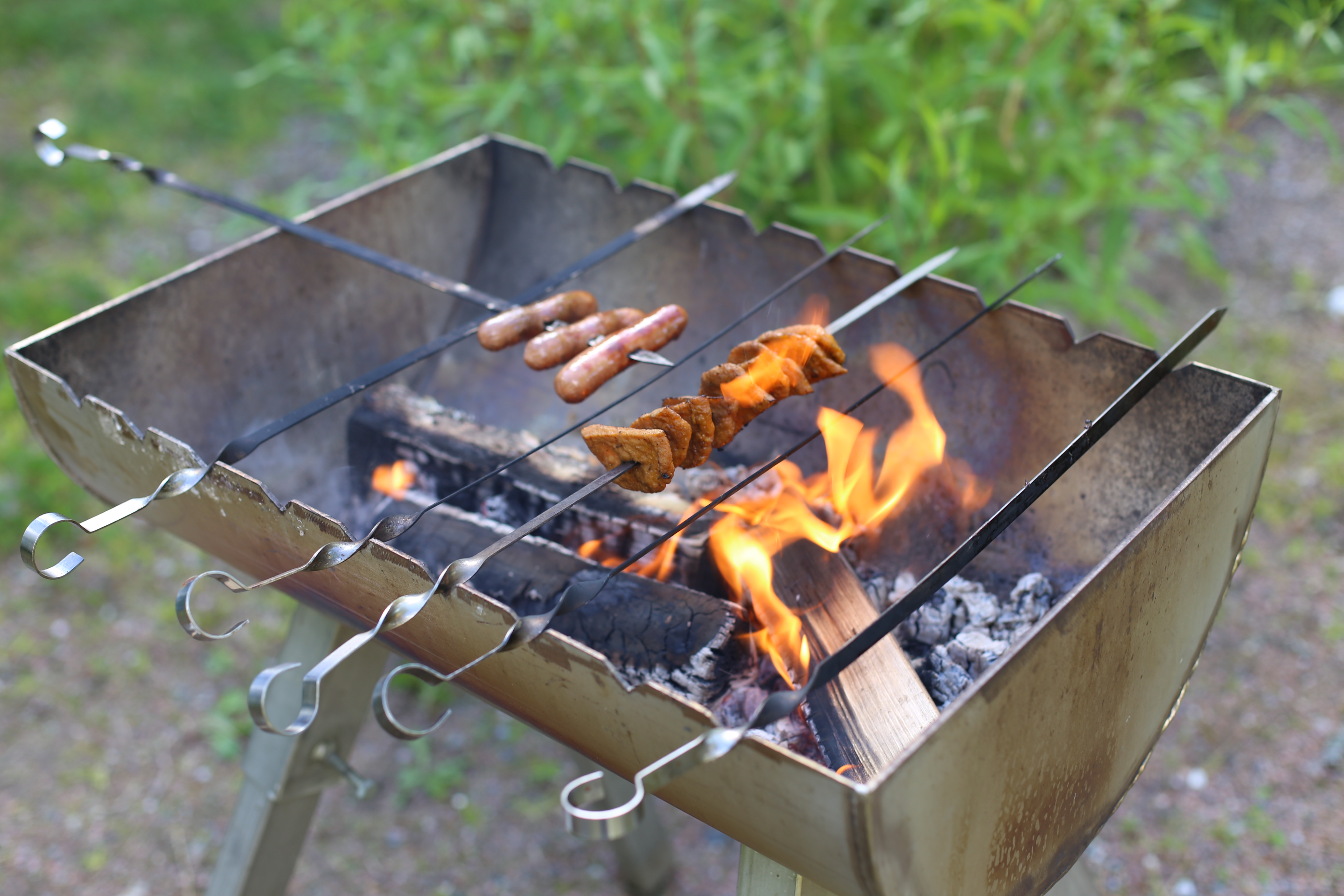 Grilling seitan and sausages